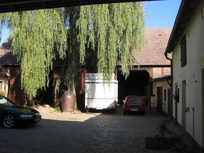 Building Dorfstraße (german for villagestreet ) No. 10. The village Gömnigk is a part of the town Brück in the district Potsdam Mittelmark, state Brandenburg, Germany, at the border to the natural preserve Naturpark Hoher Fläming.